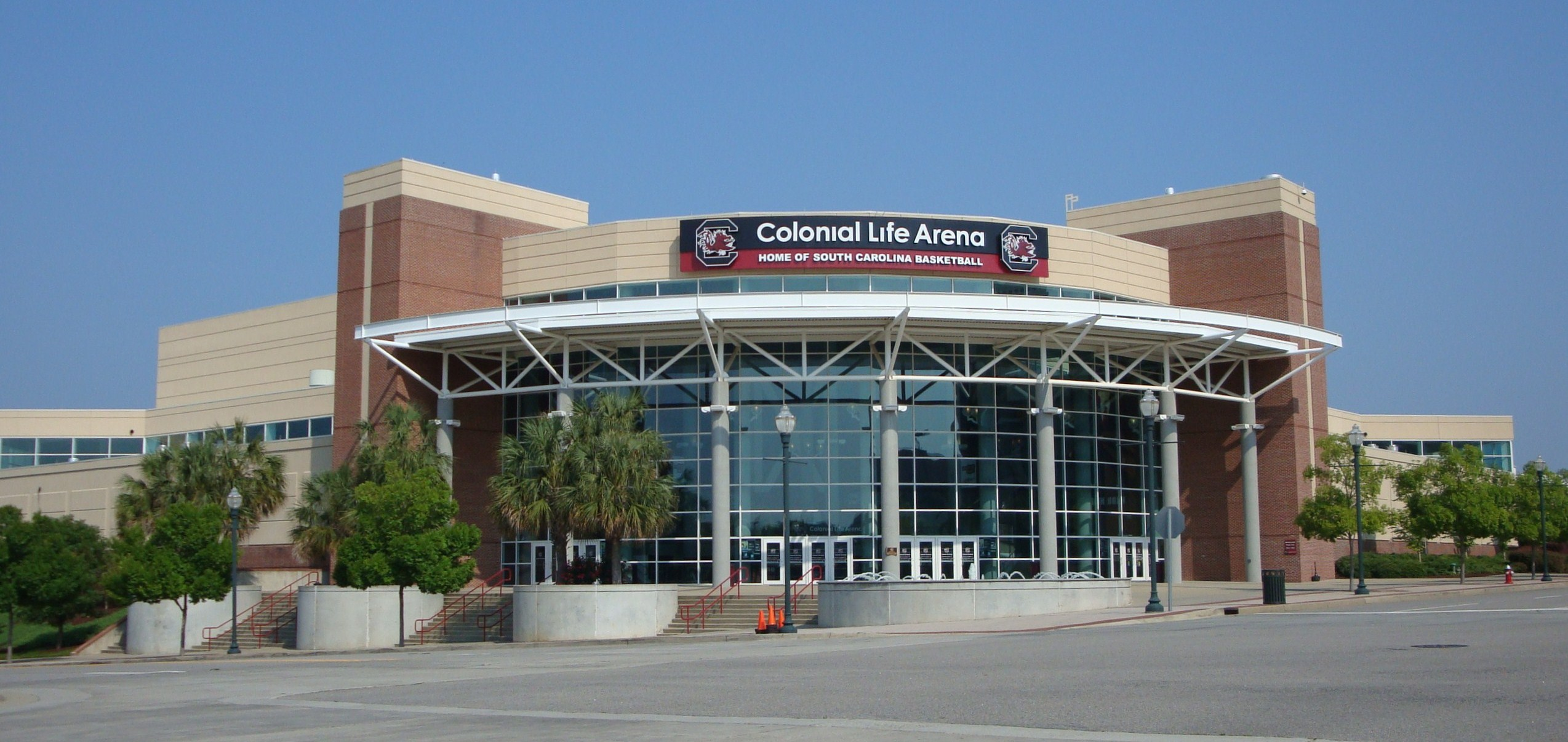 Opened in 2002, the 18,000 seat Colonial Life Arena is home to South Carolina Gamecocks basketball and is the largest arena in the state of South Carolina.